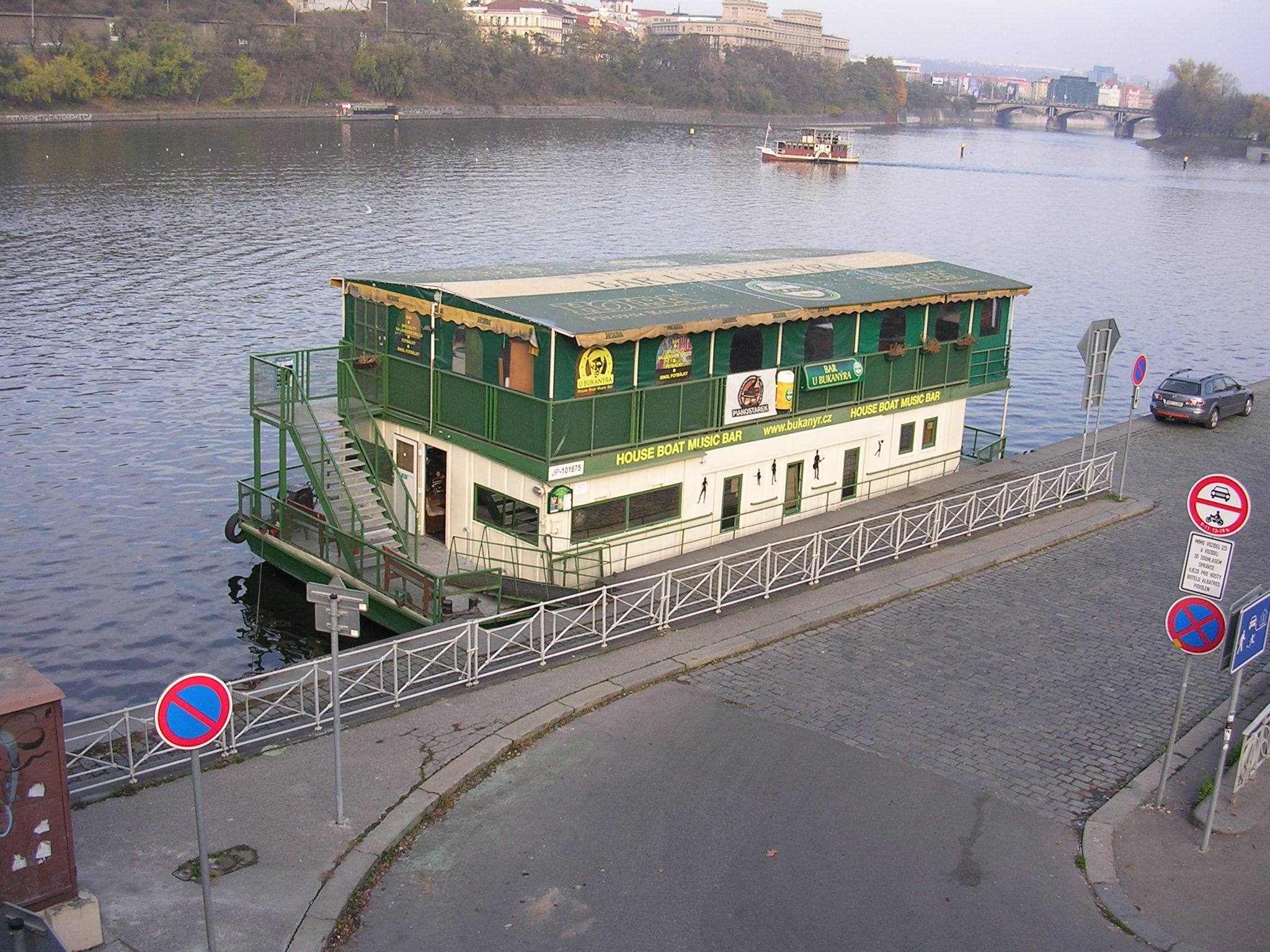 New Town, Prague. House boat music bar “Bukanýr”